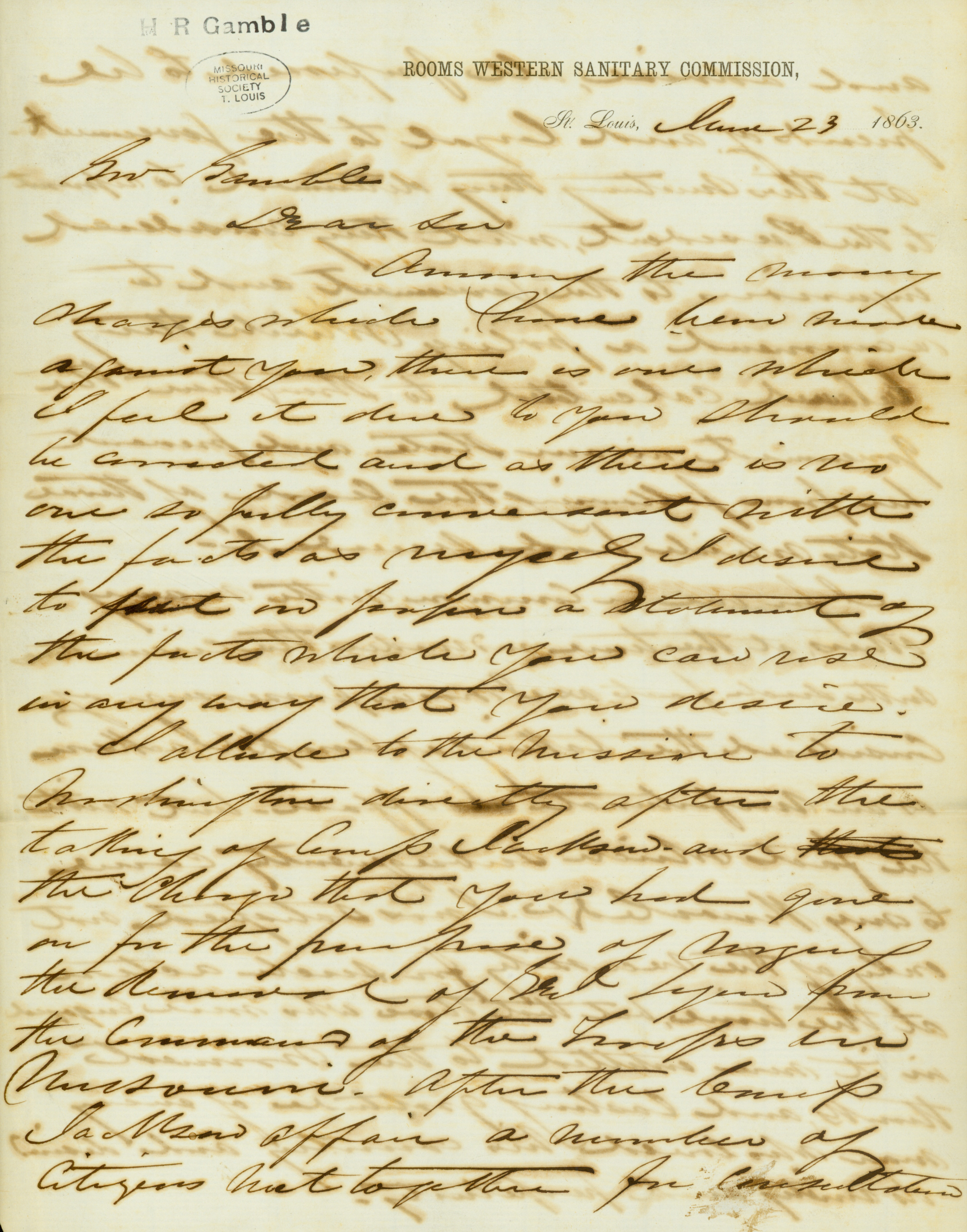 Regarding support of the governor in face of charges that he tried to remove General Nathaniel Lyon from command.Title: Letter signed James E. Yeatman, Rooms Western Sanitary Commission, St. Louis, to Gov. Gamble [Hamilton R. Gamble], June 23, 1863